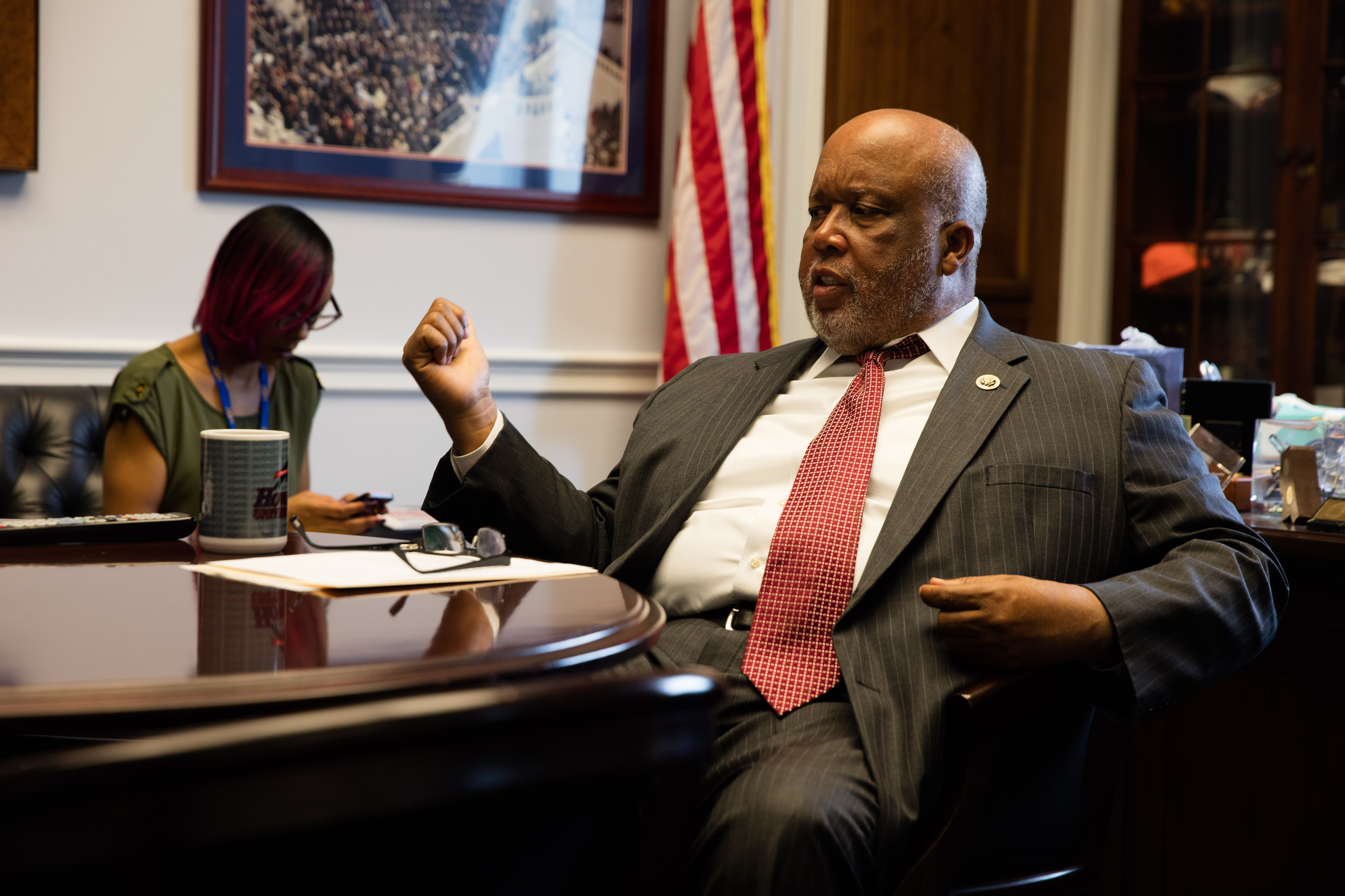 AFGE President J. David Cox Meets with Congressman Bennie Thompson